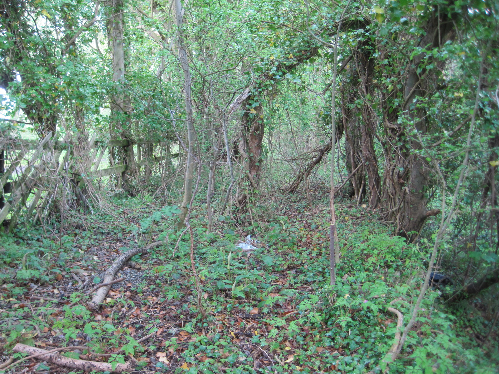 Fyling Hall railway station (site), YorkshireOpened in 1885 on the North Eastern Railway's line from Redcar to Scarborough, this station closed in 1965. View north along the former platform towards Robin Hood's Bay and Redcar. To the left of the platform fencing is a rail trail.